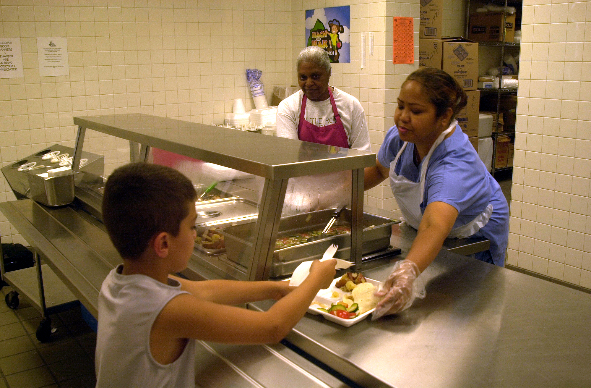 MARINE CORPS BASE CAMP LEJEUNE, N.C. - Aurora Paltt a cafeteria worker at Tarawa Terrace II Elementary School serves a child a lunch here July 11. Preschoolers to 18-year-olds can get a free lunch from Department of Defense Dependent Schools at Tarawa Terrace II Elementary School and Brewster Middle School. (Official U.S. Marine Corps photo by Lance Cpl. Brandon R. Holgersen)